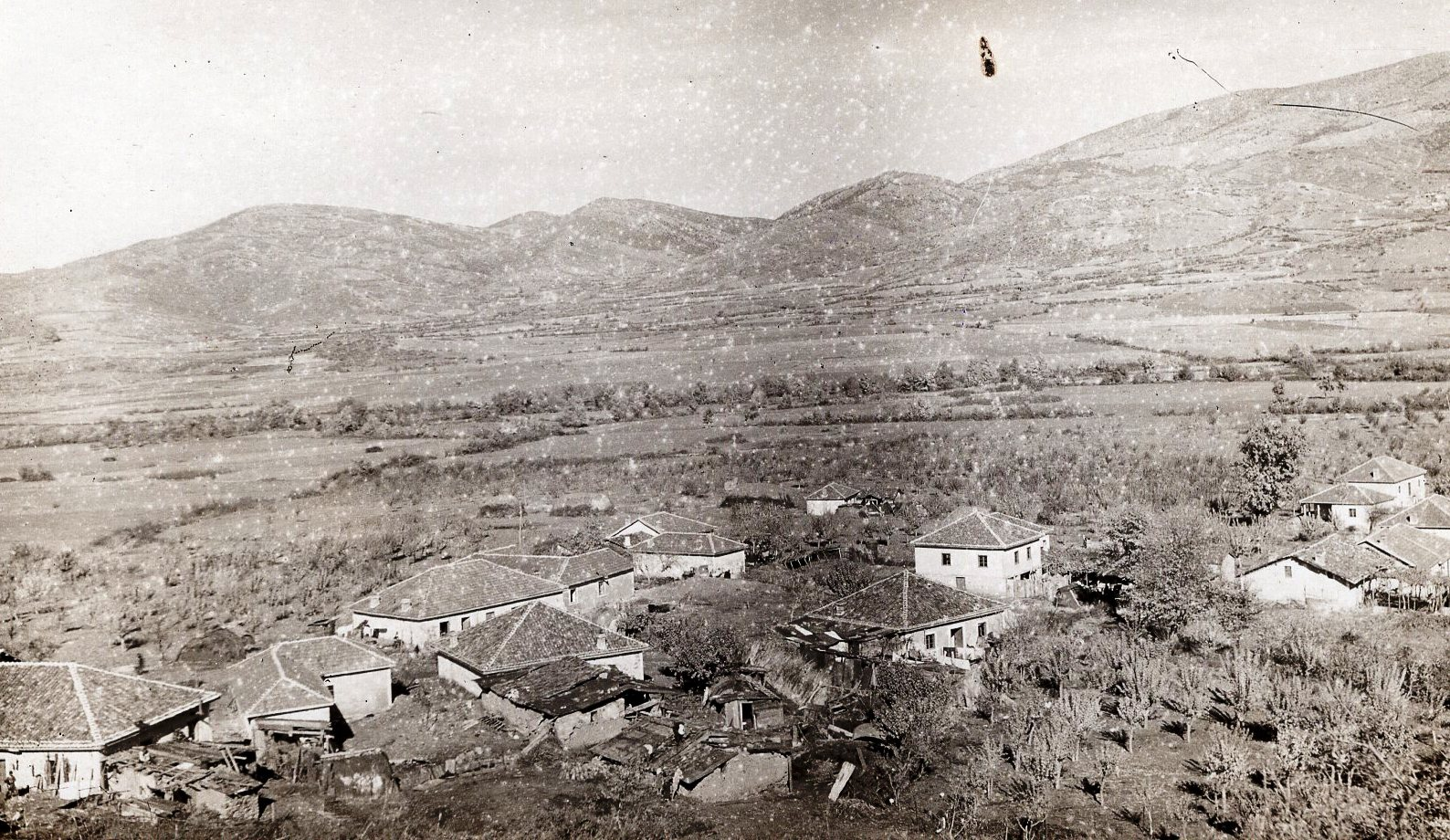 Village Crničani (Dojran), 1931 This media file is produced by Wikipedian in Residence in Category:Wikipedian in Residence at DARM in 2016.